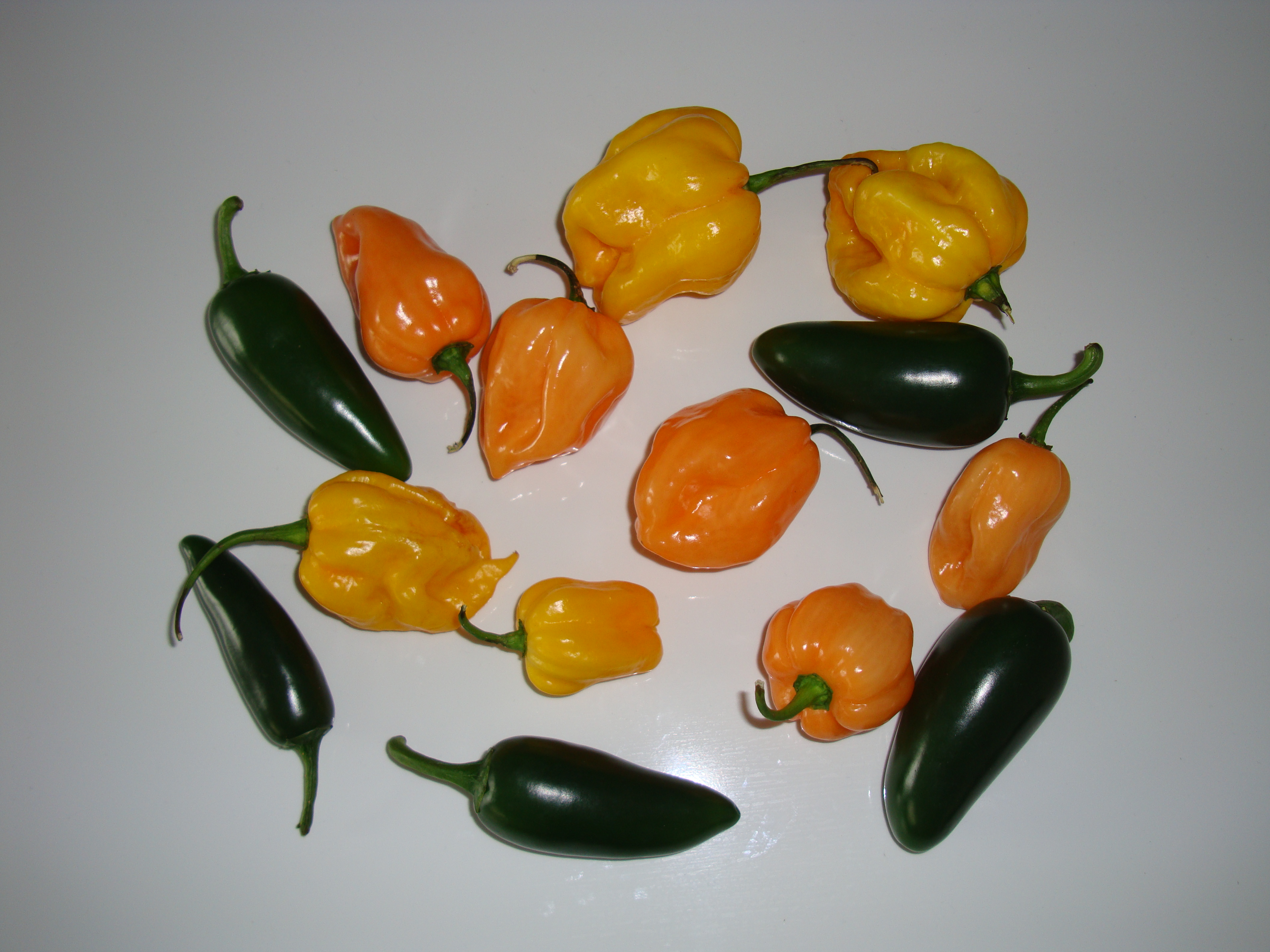 Collection of Habanero Yellow and Orange chilipeppers en green Jalapeño's